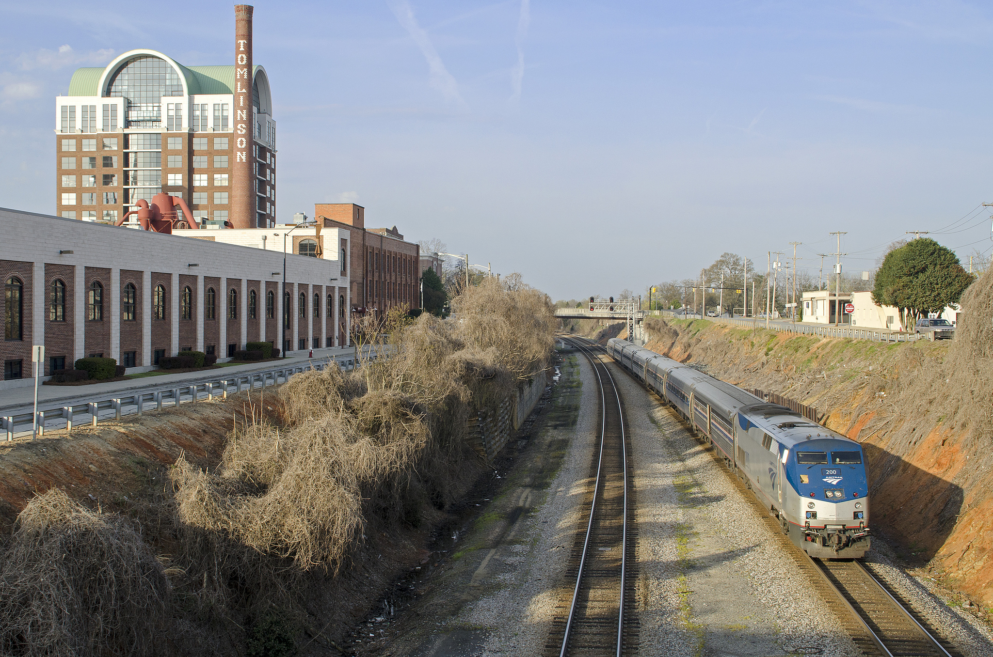 Train 80, Amtrak's Carolinian, rolls into the High Point station on a sunny Monday morning.